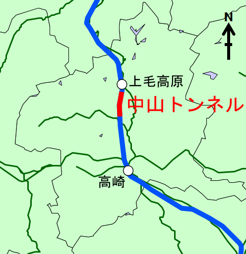 Map of Nakayama Tunnel on the Joetsu shinkansen in Gumma Prefecture